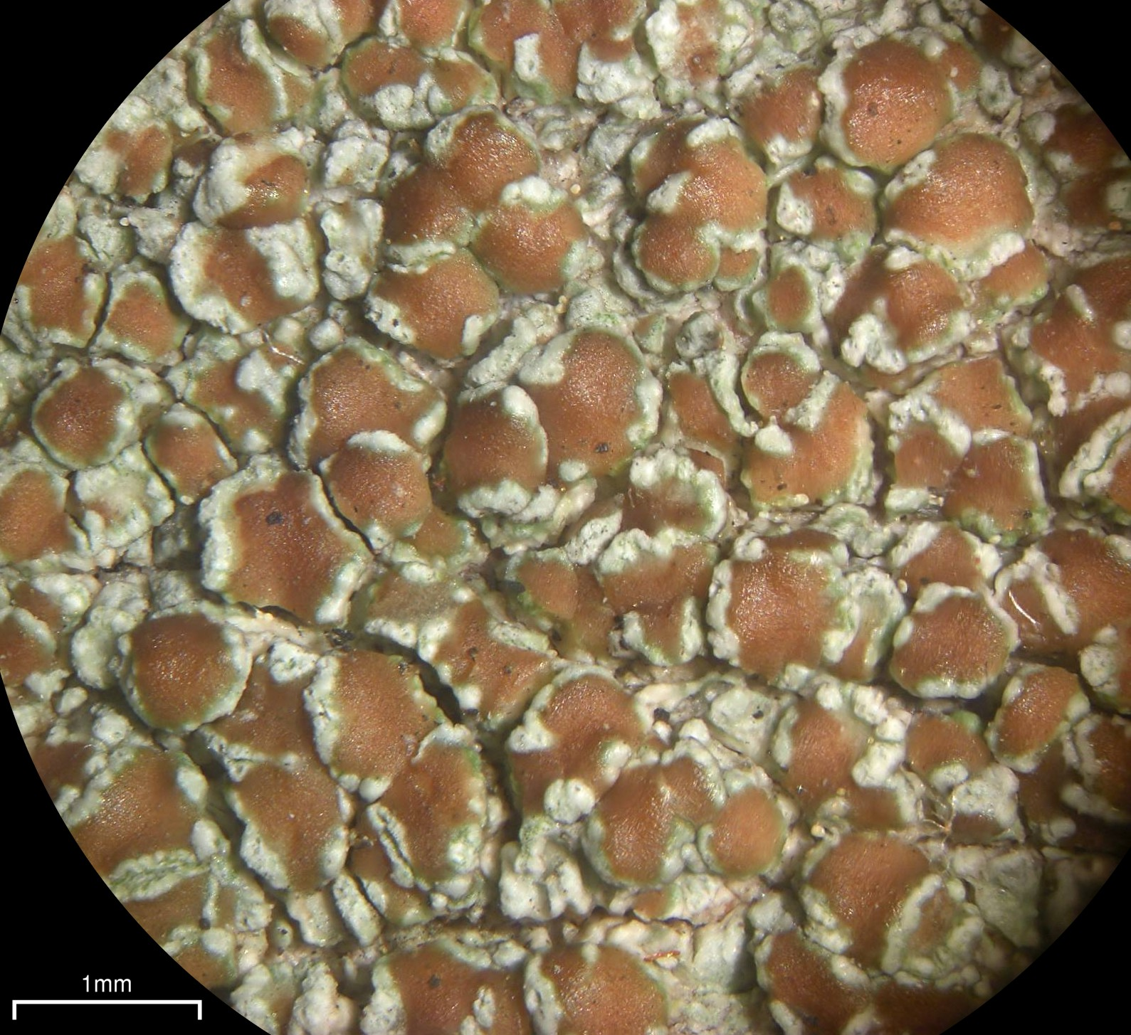 Beaded apothecia of the lichen Lecanora cinereofusca at 30X magnification; photographed in Cosby Knob, Great Smoky Mountains National Park, Cocke Co., Tennessee, USA.